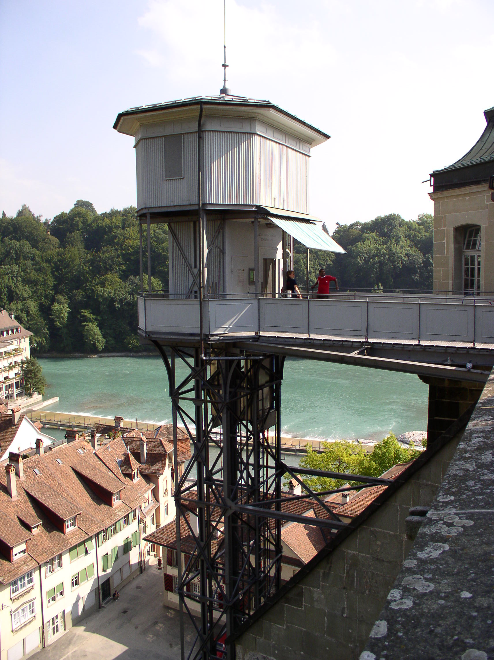 Description: Senkeltram, das Mattequartier und Münsterplattform verbindet Source: photo taken by me, September 2005 Photographer: Baikonur